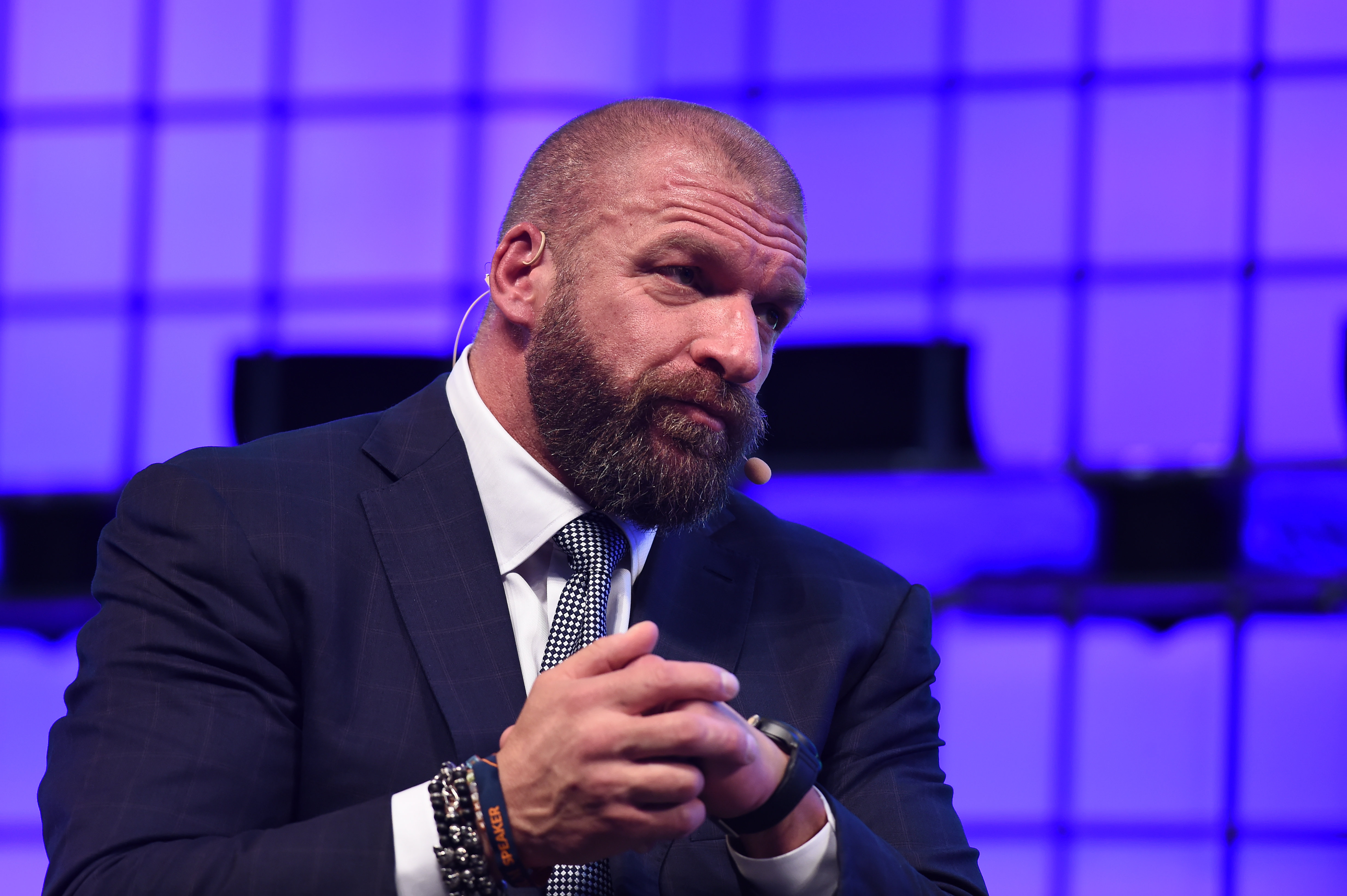 7 November 2017; Paul Levesque, Executive Vice President, Talent, Live Events & Creative, WWE, on the Centre Stage during the opening day of Web Summit 2017 at Altice Arena in Lisbon. Photo by Stephen McCarthy/Web Summit via Sportsfile